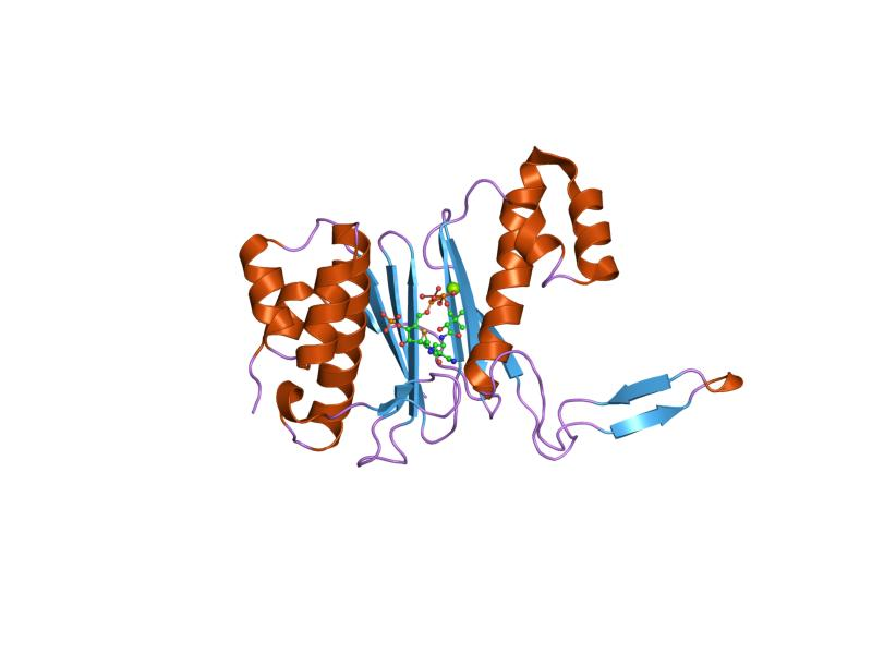 Cartoon representation of the molecular structure of protein registered with 1qr0 code.